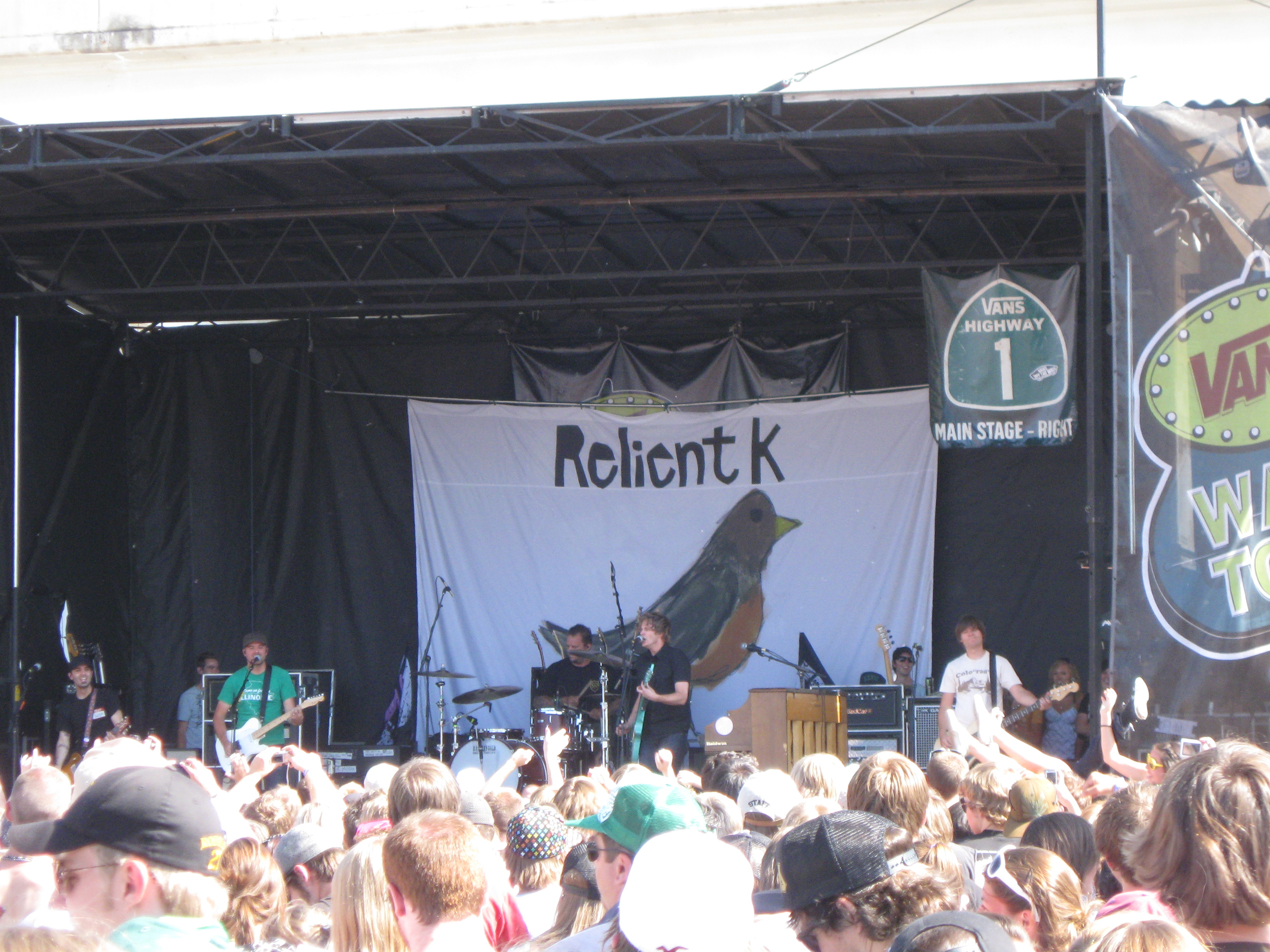 Relient K performing in Colorado on the 2008 Warped Tour.